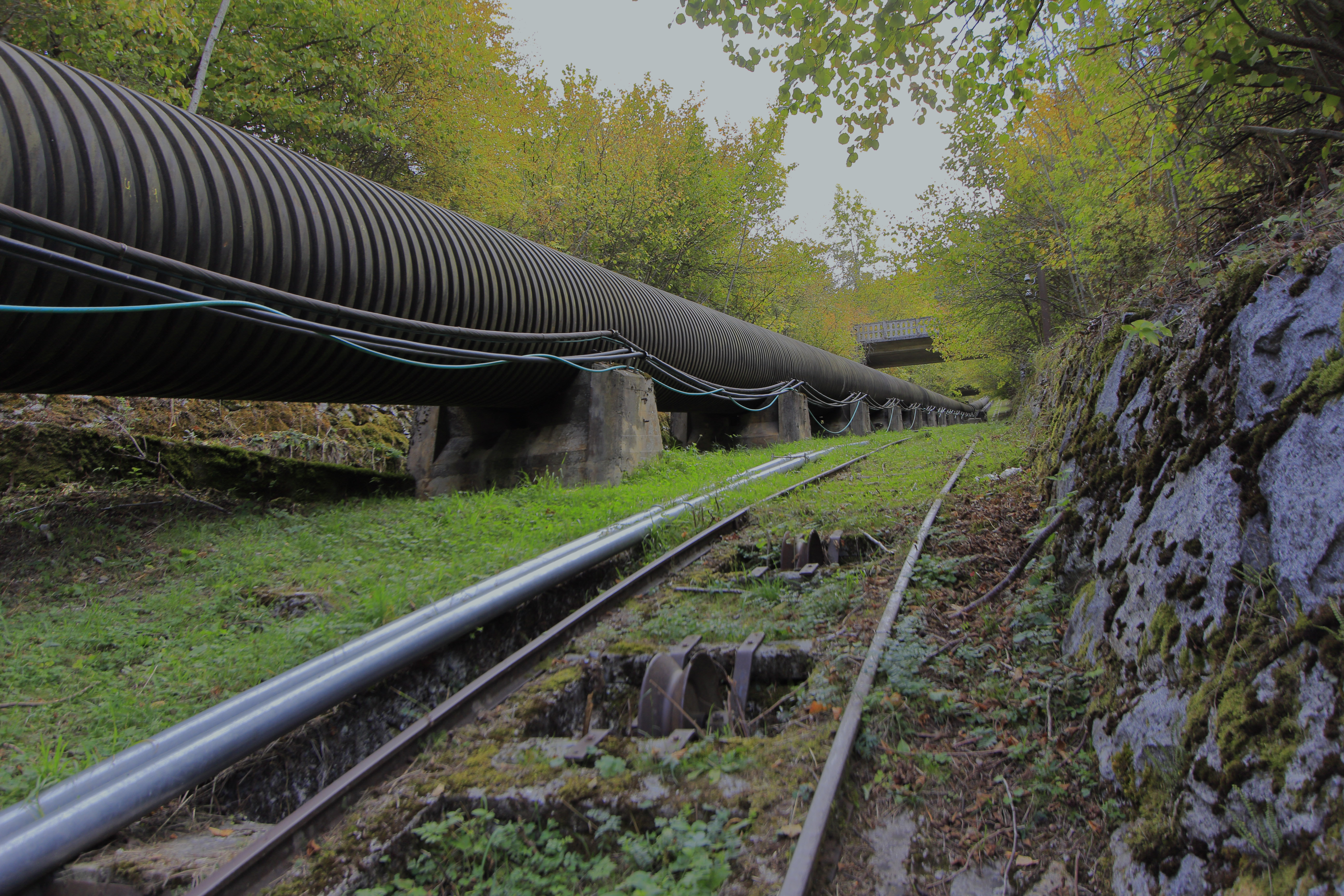 Arties power plant penstock